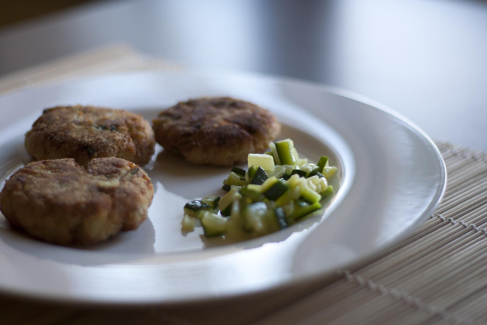 Fishballs with crab and corguette (Recipe in italian: )